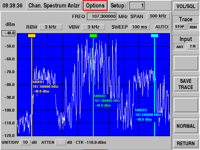 RF spectrum of a broadcast FM radio station transmitting HD Radio signal. Markers show carrier frequency of adjacent channels as well as of the transmitting station. IBOC signals are next to the adjacent channels.